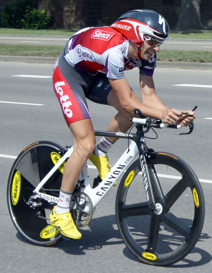 Kenny Dehaes at the 2009 Eneco Tour prologue